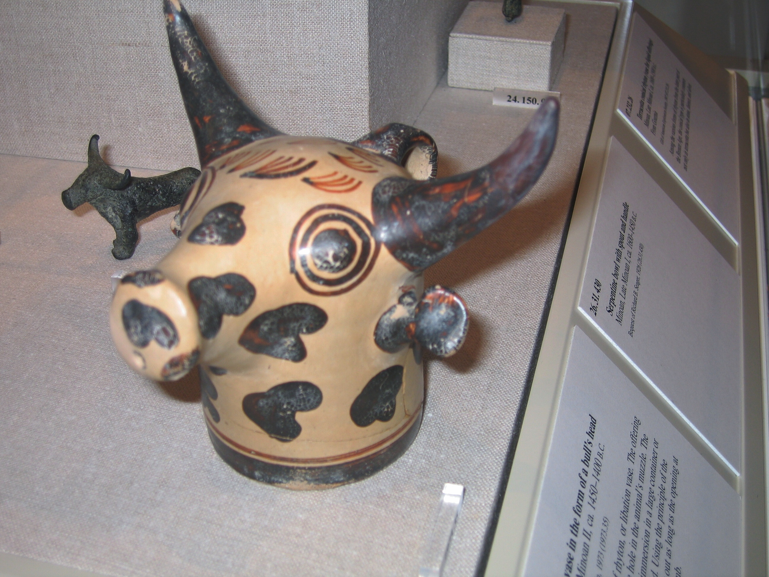 Terracotta vase in form of a bull's head, Minoan, Late Minoan II, ca. 1450-1400 B.C. photo by talmoryair, 2006